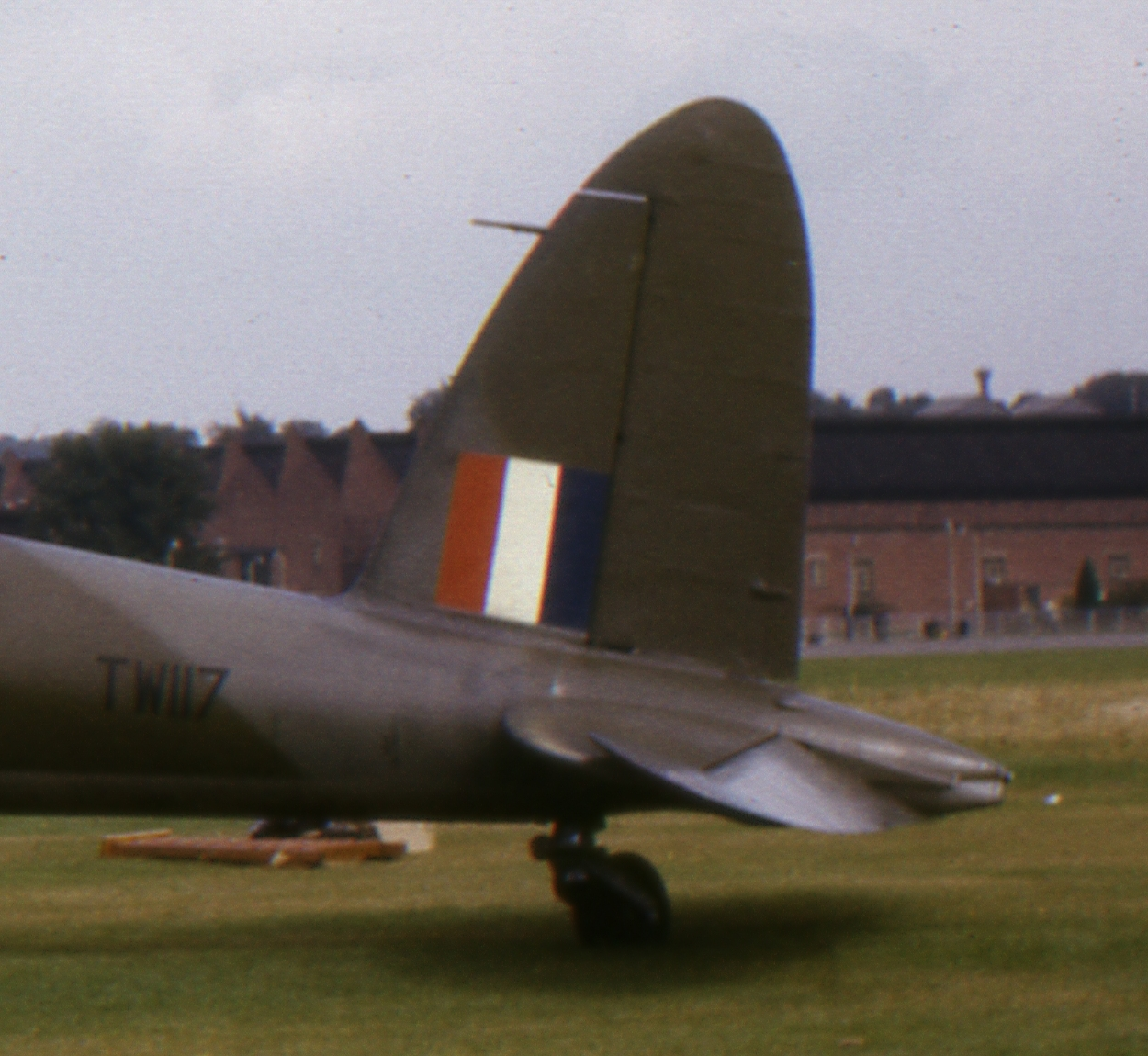 Horn balanced rudder of de Havilland Mosquito TW117, at the SBAC Farnborough on 8 September 1962